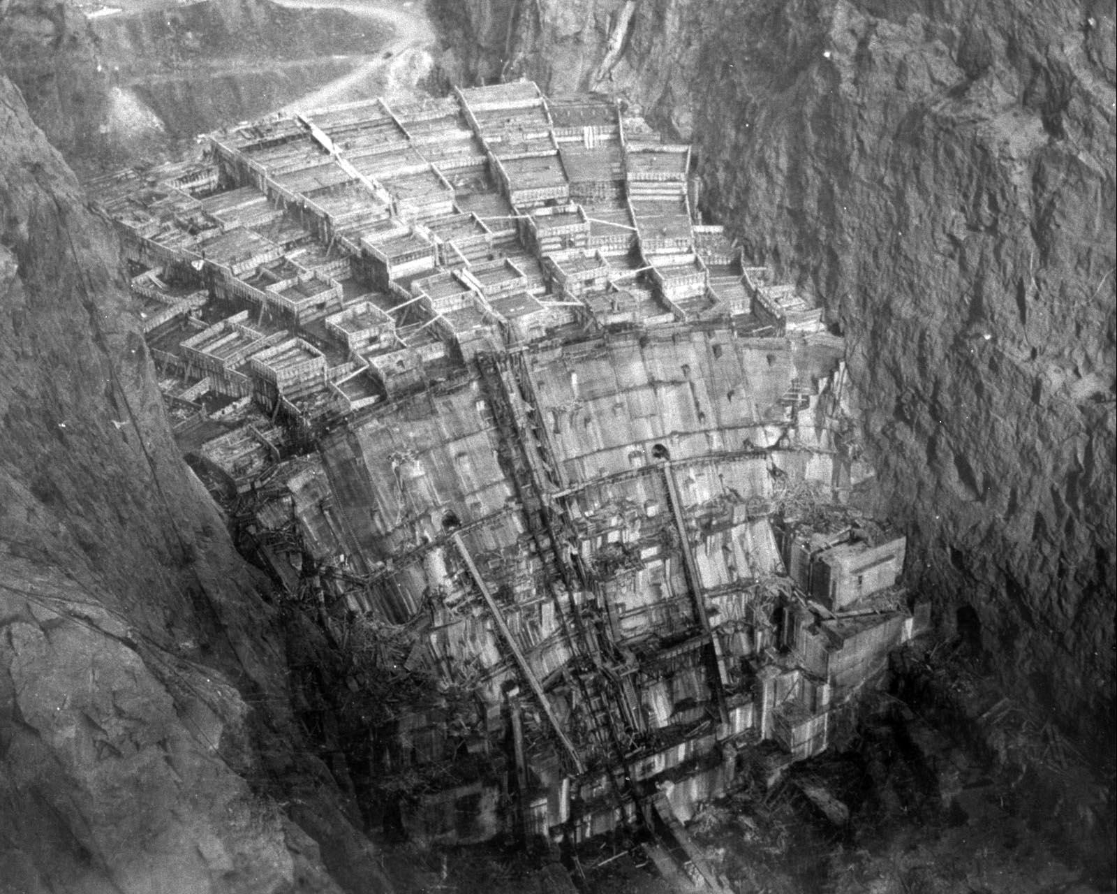 Hoover Dam takes shape from the concrete columns in which it was poured (shot from cableway control tower downstream on Nevada rim, so looking upstream)